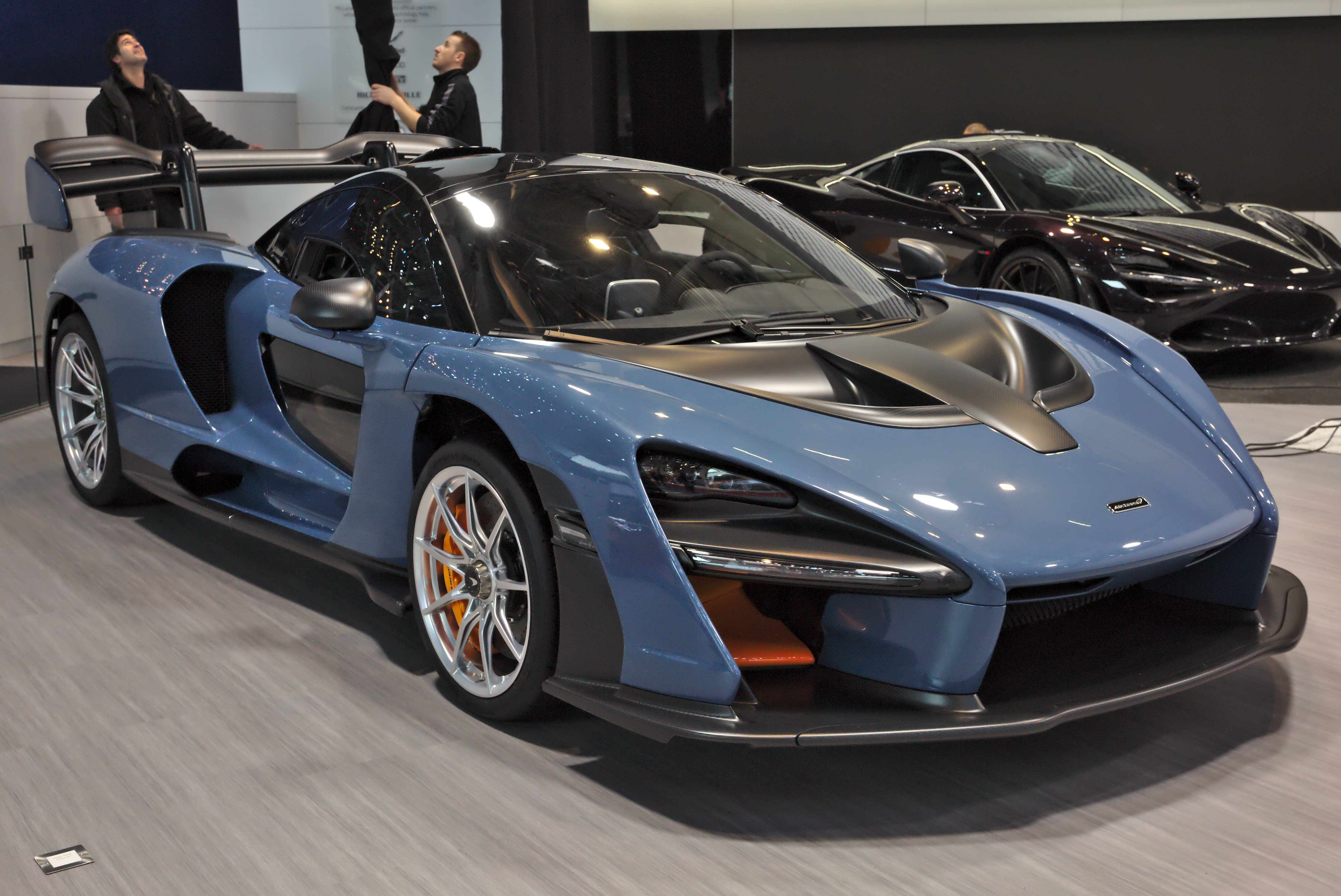 McLaren Senna at Geneva Motorshow 2018